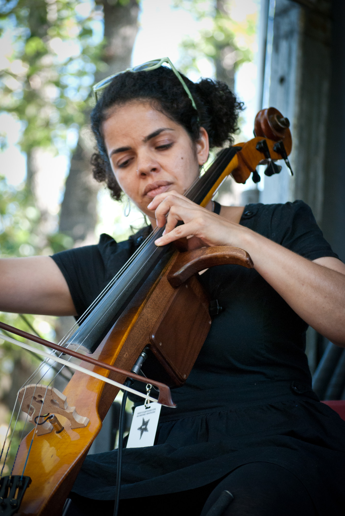 Anissa Hart playing the Cello at the Calgary Folk Festival 2010.